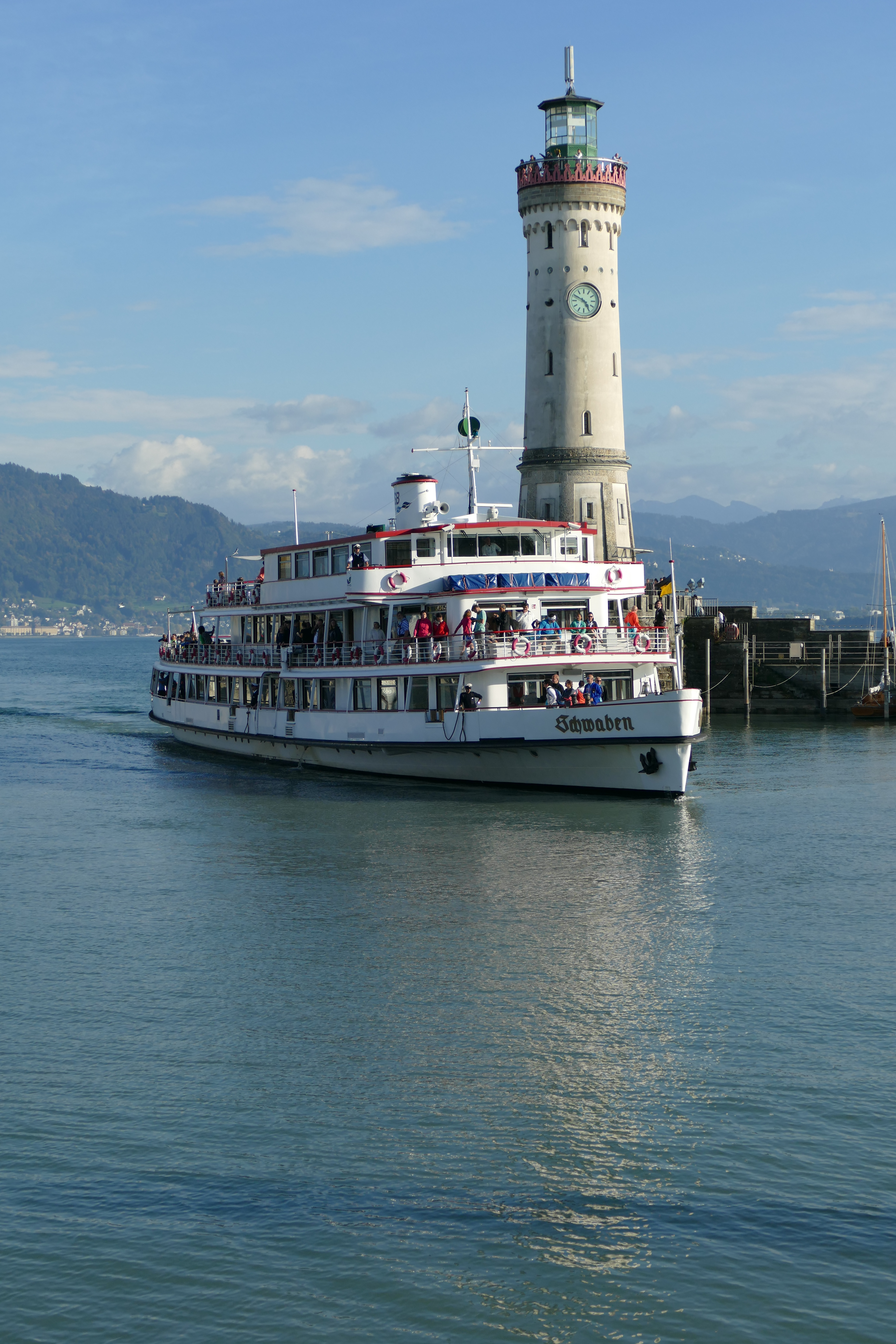 The ship "Schwaben" coming into Lindau harbor